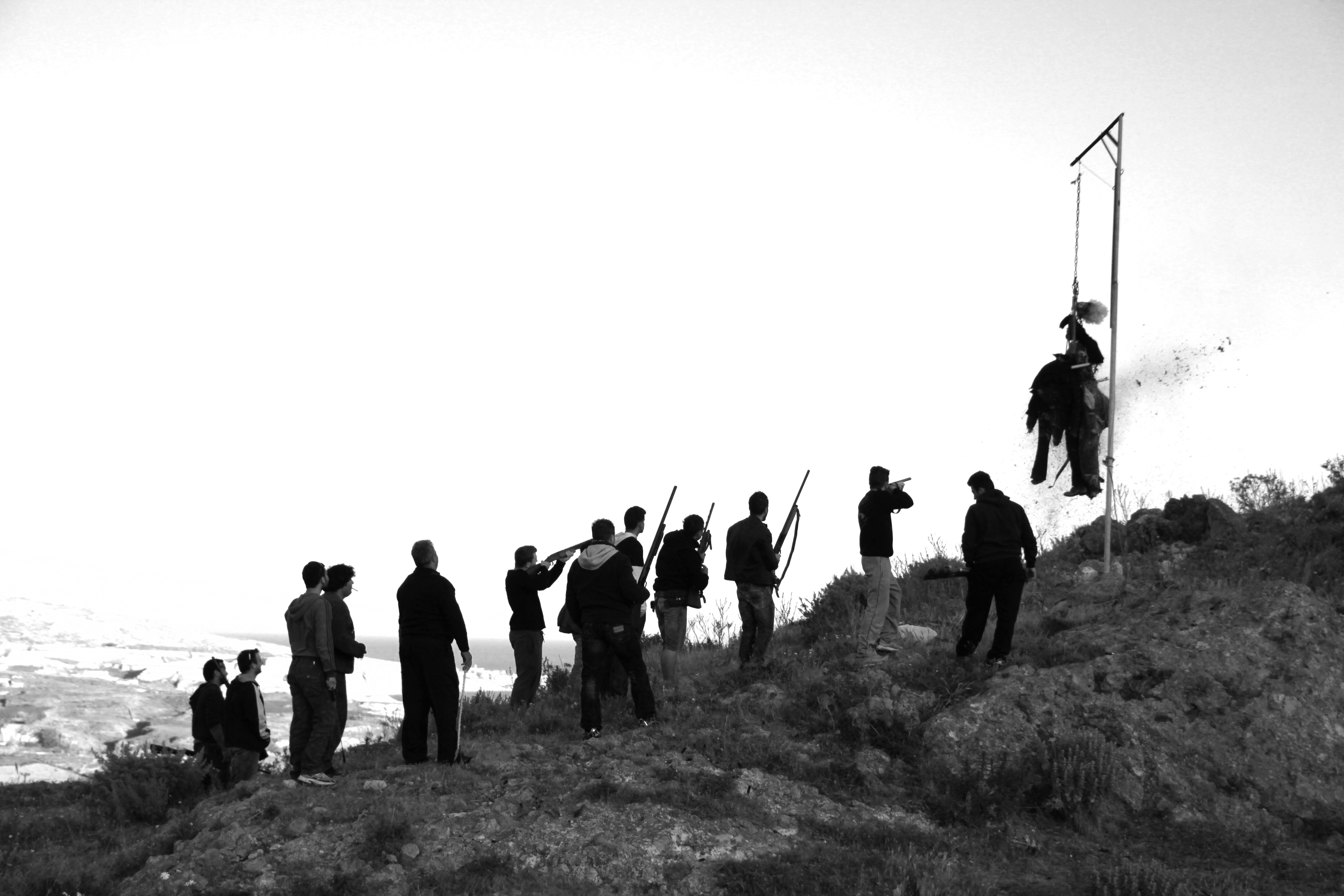 A local tradition of the village Akrotiri of Santorini is the punishment of the effigy of Judas Iscariot which comprises of three events: The procession of Judas around the village, the trial of Judas and finally his burning... The punishment of Judas Burning of Judas